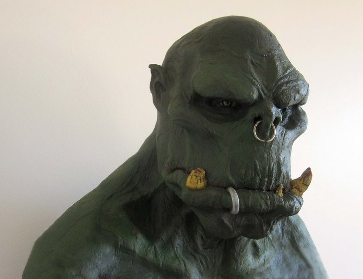 An Orc mask made out of latex, based off Warhammer concept.